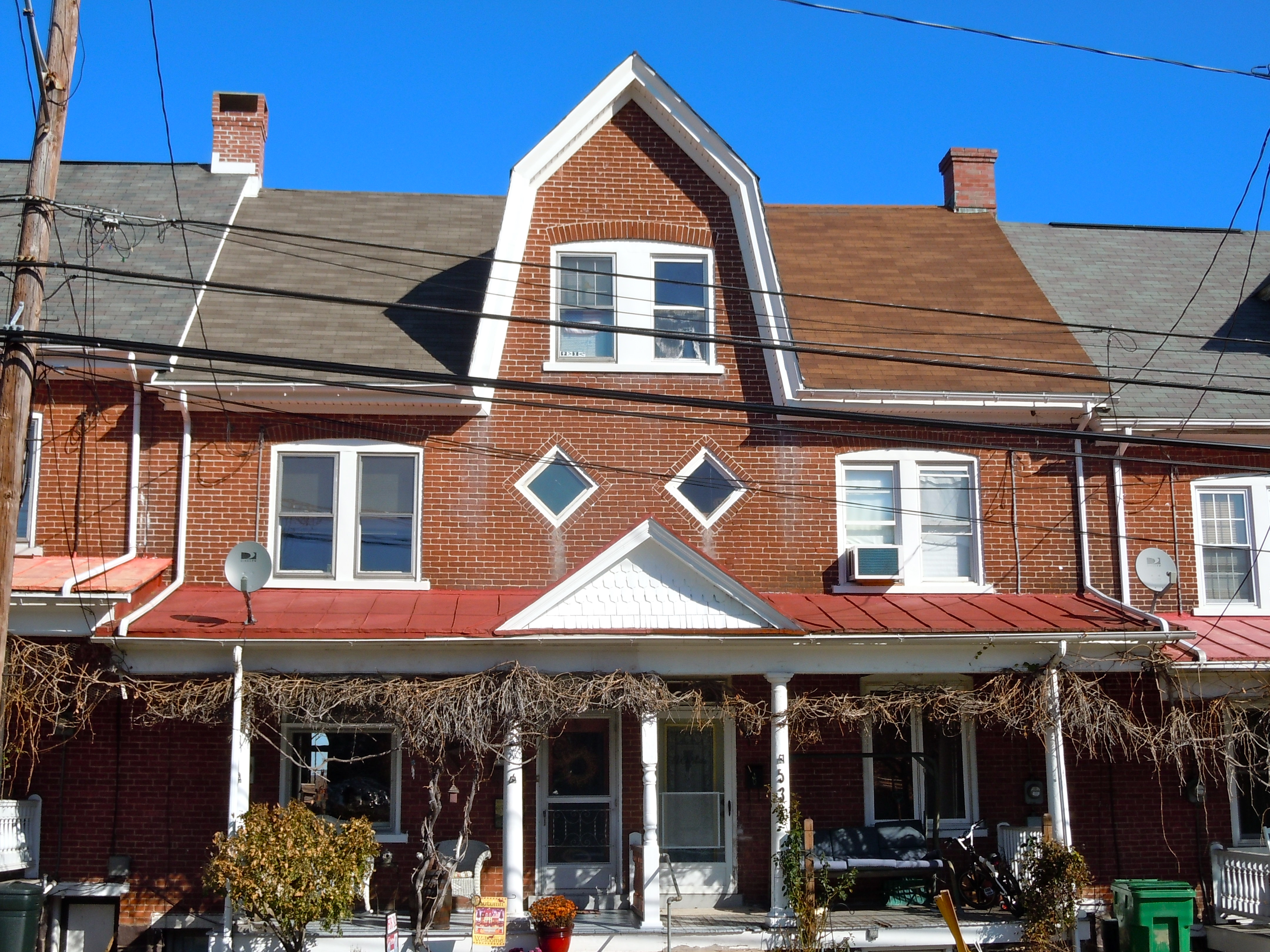 House in Red Hill Historic District, on the NRHP since October 31, 1985. The historic district includeds 148, 152, and 200–600 Main Street, 98–226 and 21–231 West Sixth Street, and 532–550 Adams Street, Red Hill, Montgomery County, Pennsylvania. This house is 536 Adams, nearly identical to the other Adams Street Houses in the HD.